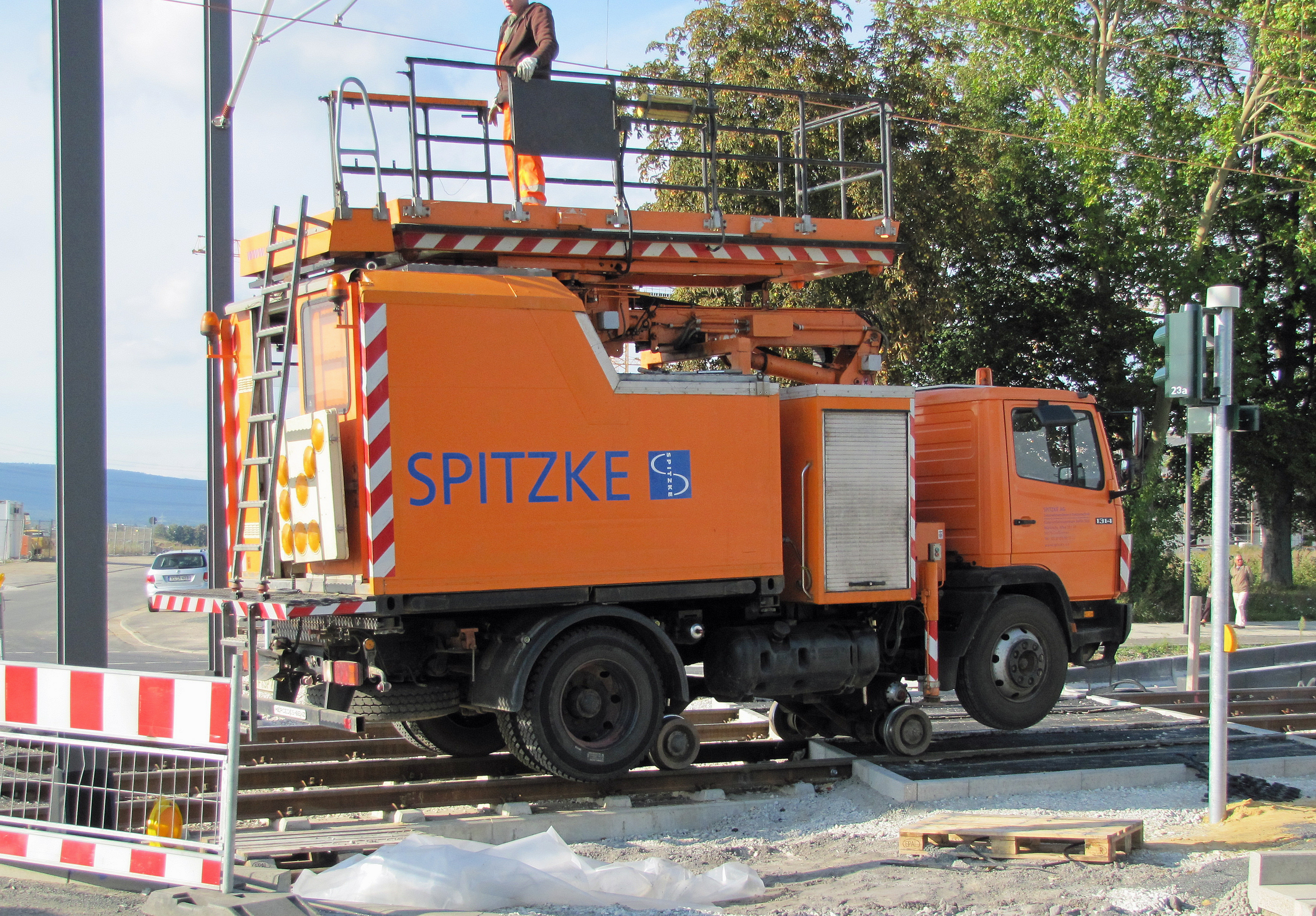 Overhead lines service truck.